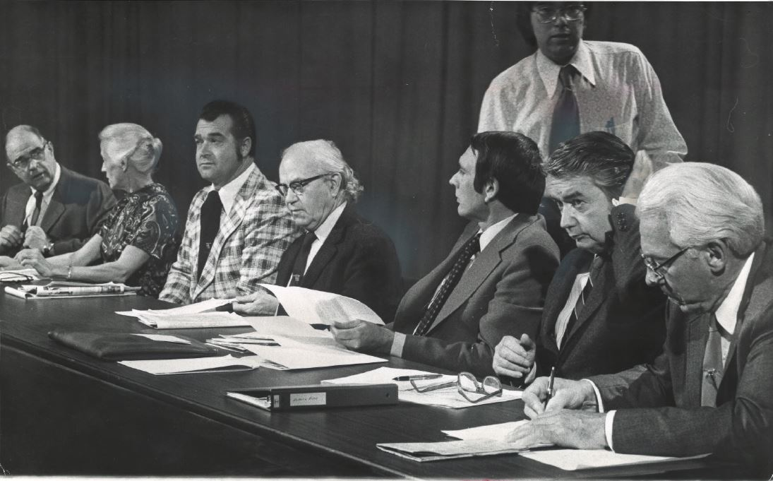 Image of the 1974 Wisconsin gubernatorial race debate